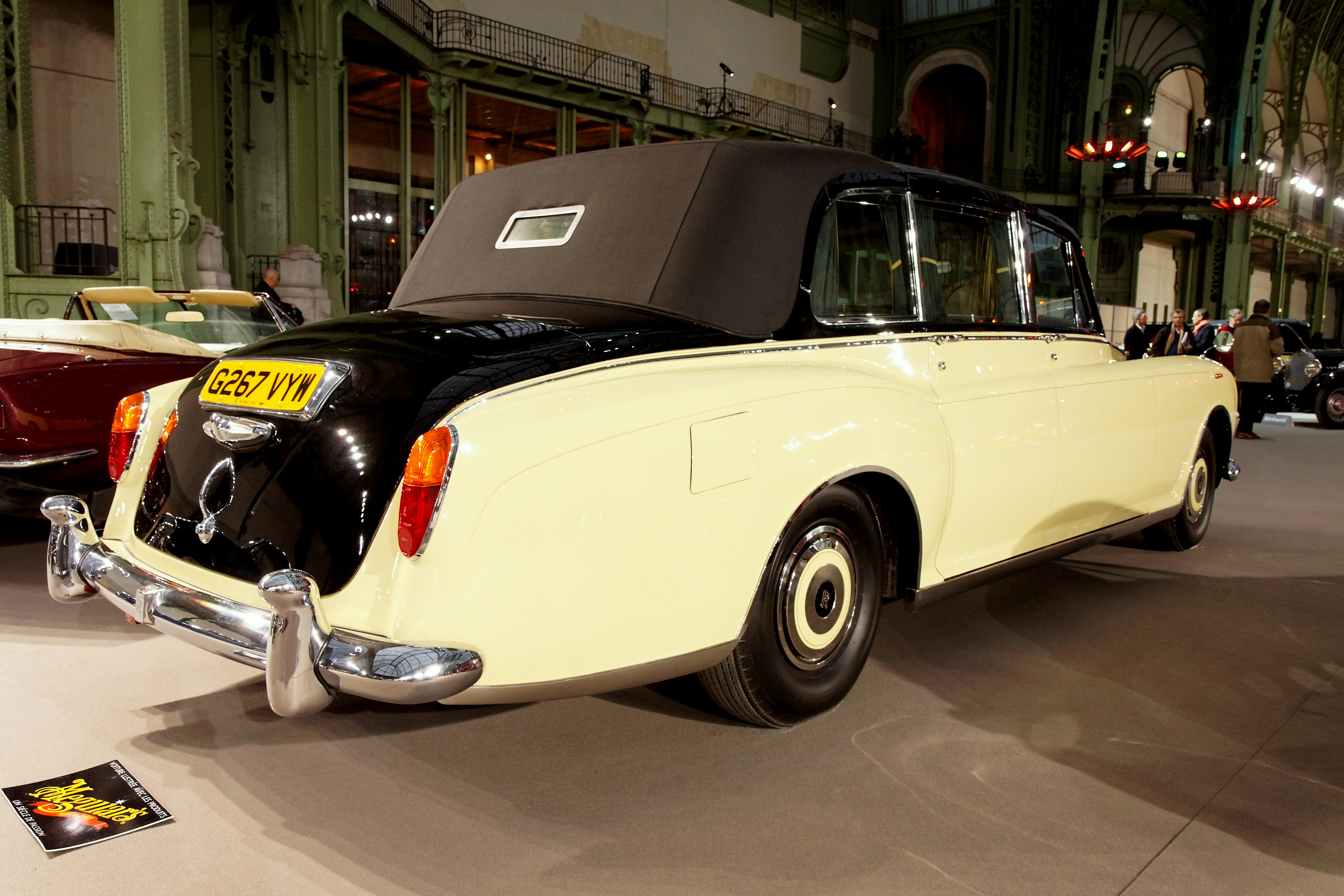 Rolls-Royce Phantom VI landaulette Source of information, Bonham's